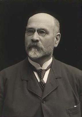 Lorentz Rasmus Lorentzen (1842-1915), Danish physician and titular professor